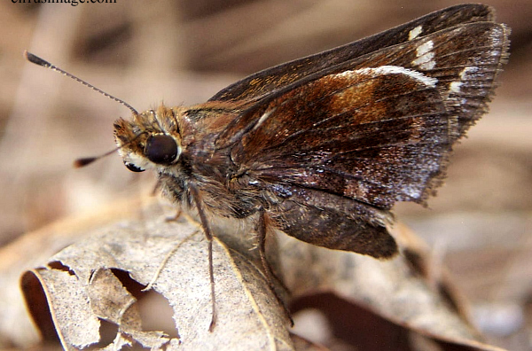 Description: jpeg image, Zabulon Skipper Butterfly, Poanes zabulon at Winfield IL USA. This is a female. Charles (talk) 14:45, 12 June 2019 (UTC)